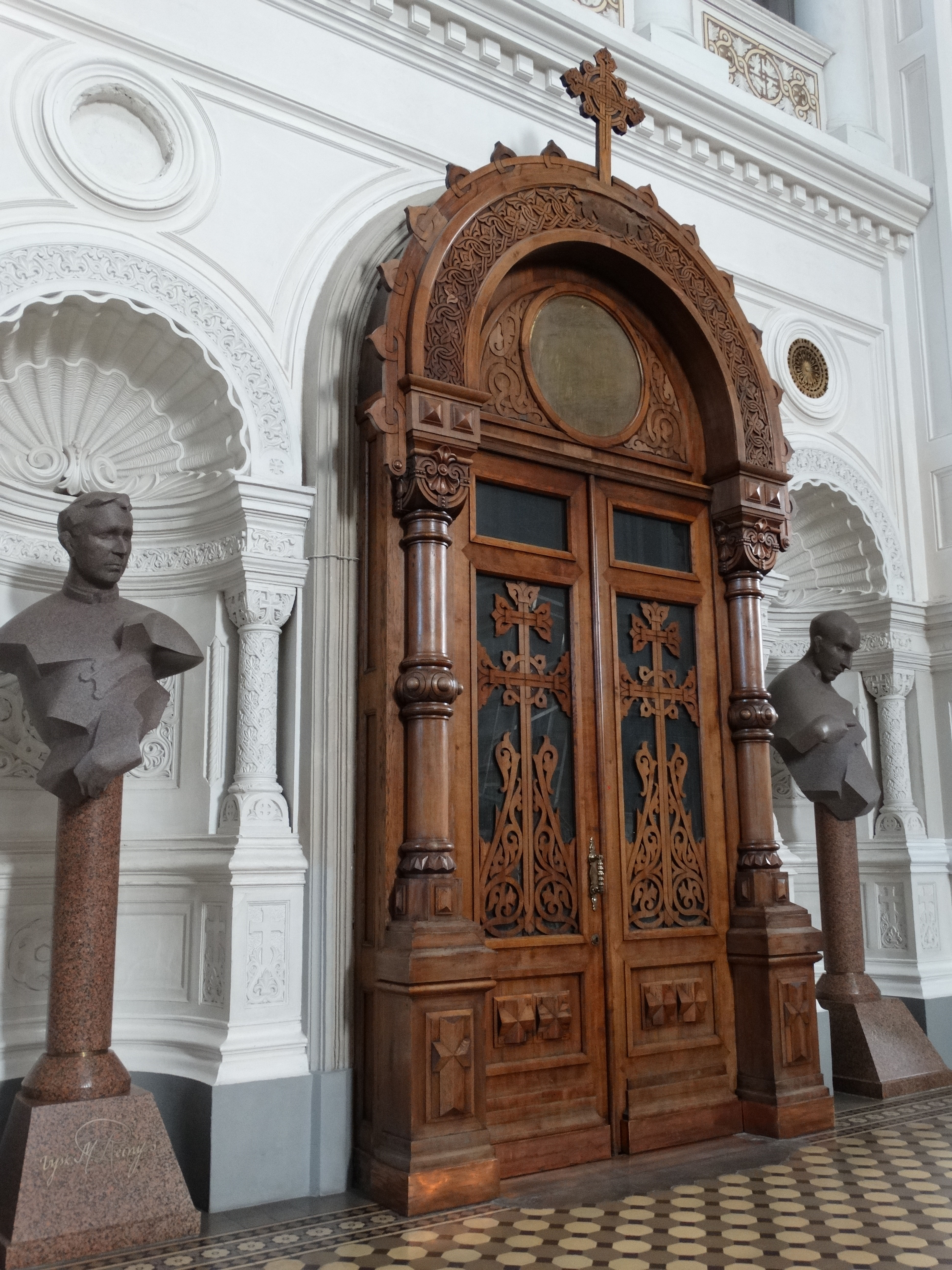 Interior, St. Michael the Archangel Church, Kaunas, Lithuania